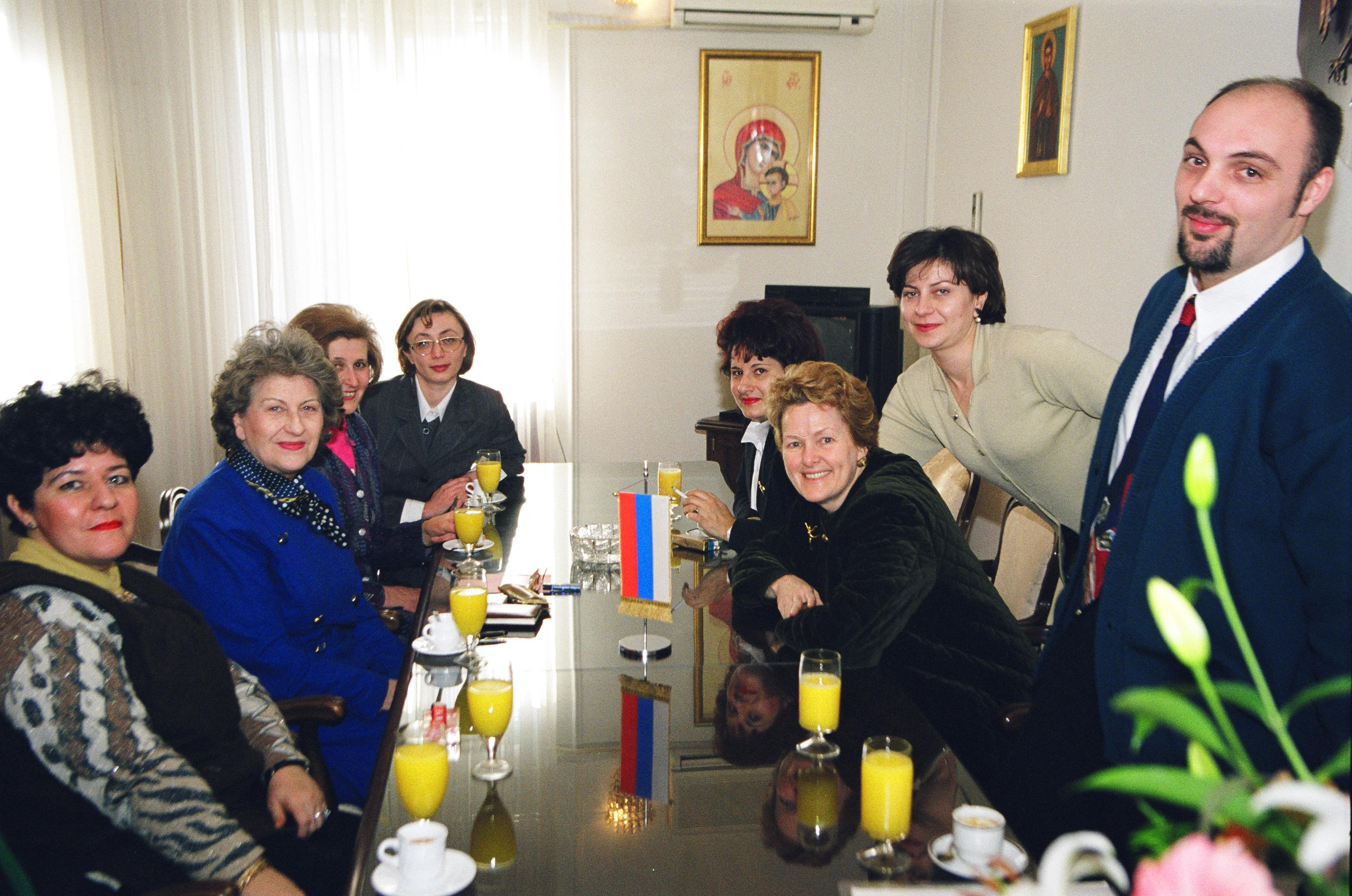 President of Republika Srpska Biljana Plavsic (second from left) – later an indicted war criminal – at the table in her Banja Lika office.